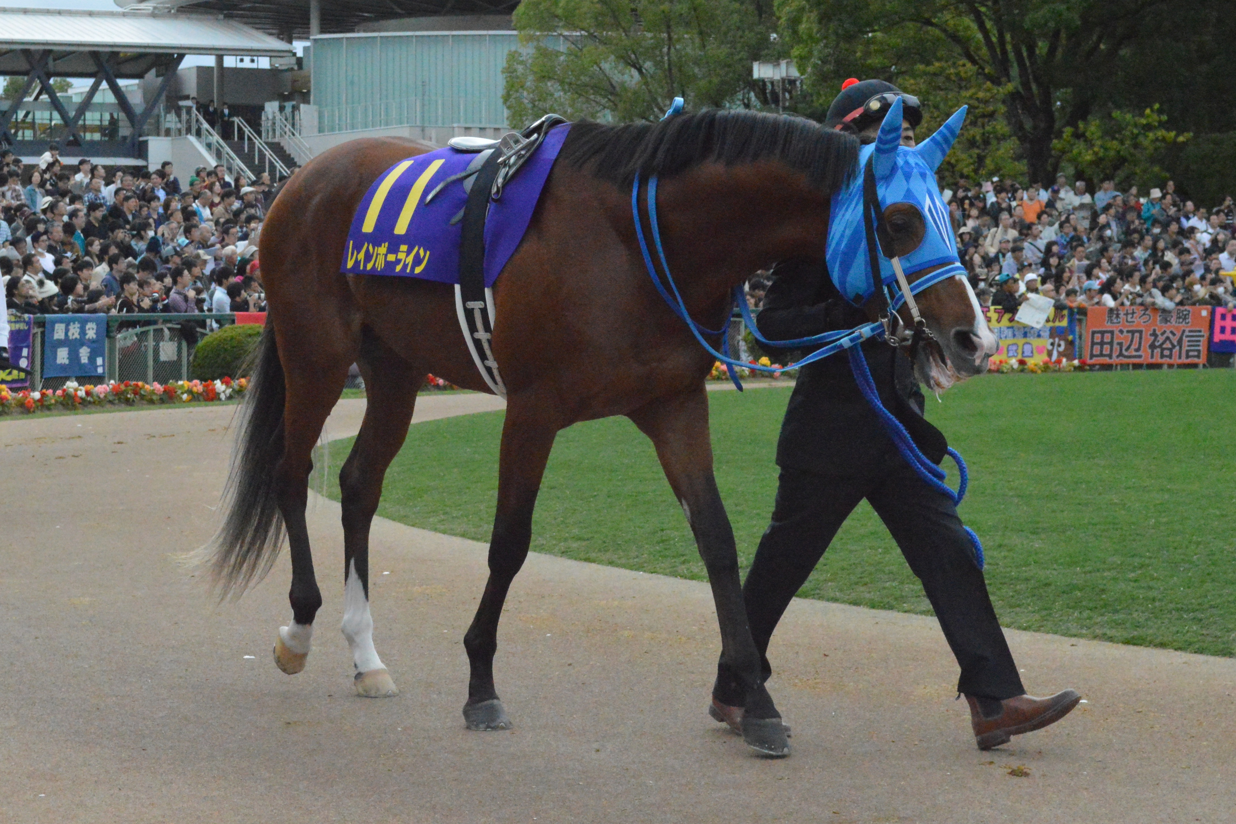 Japanese race horse Rainbow Line at Kyoto racecourse. Kyoto (JPN) 23 Oct 2016 Kikuka Sho (Japanese St.Leger) (Grade 1) (3yo Colts & Fillies) (Turf) 1m7f Firm RankHorse NameOddsAgeWgtTrainerJockey1stSatono Diamond (JPN)13/10C39-0Yasutoshi IkeeChristophe-Patrice Lemaire2ndRainbow Line (JPN)239/10C39-0Hidekazu AsamiYuichi Fukunaga3rdAir Spinel (JPN)195/10C39-0Kazuhide SasadaYutaka Take4th-18th/omission